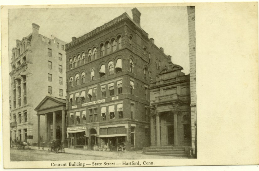 Postcard: Picture of the building where the Hartford Courant was published, of a postcard type published 1898 to 1901 Description: "Private Mailing Postcard (1898 to 1901) unused"